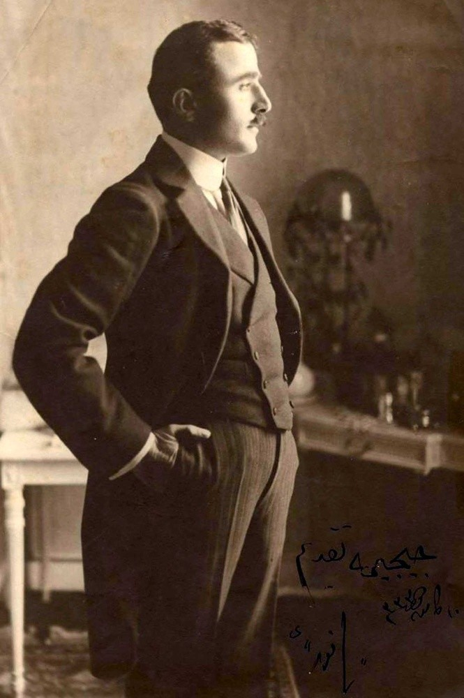 Enver pasja